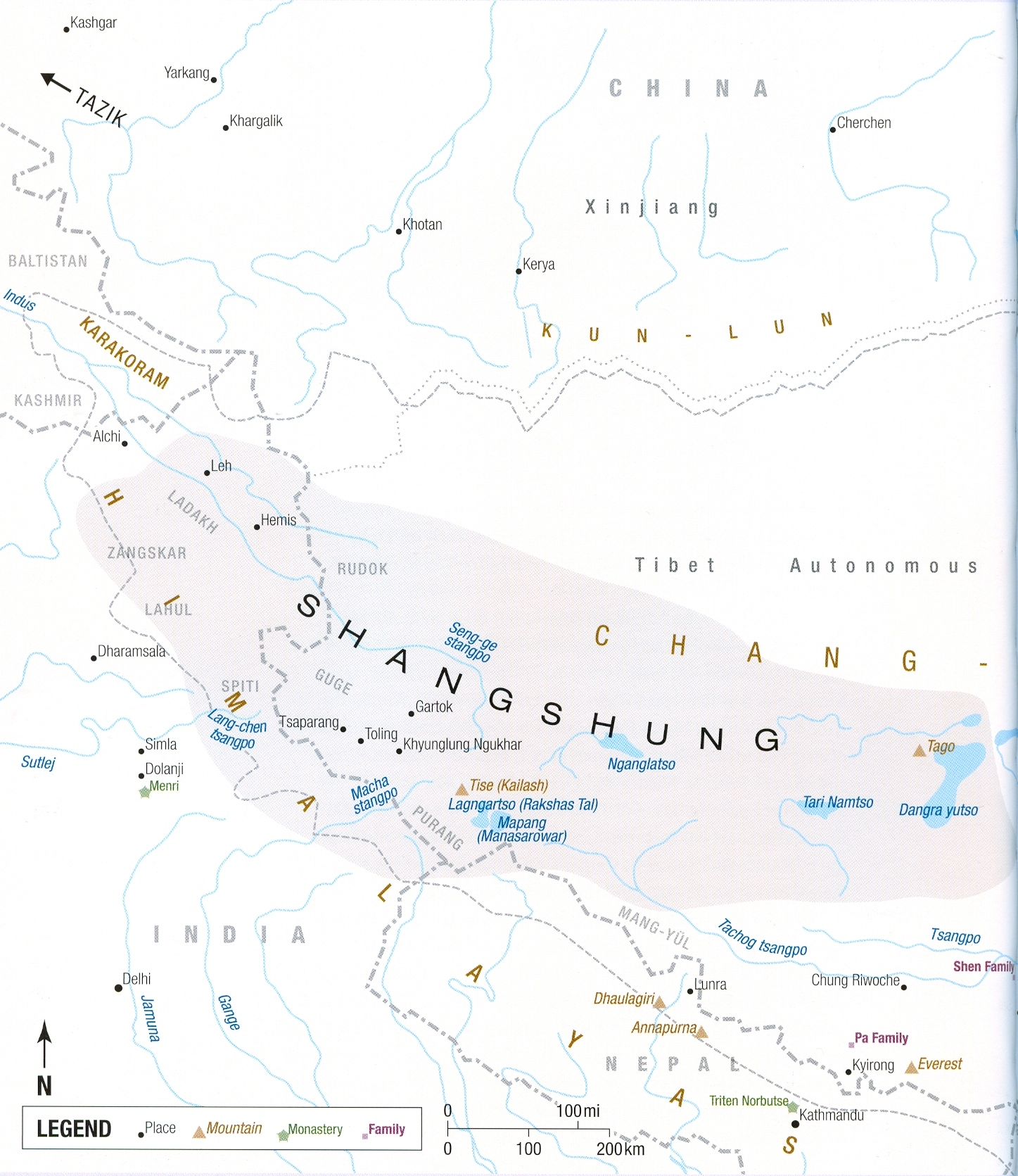 Locations of the Bon religion in the West Tibet. Schematic map